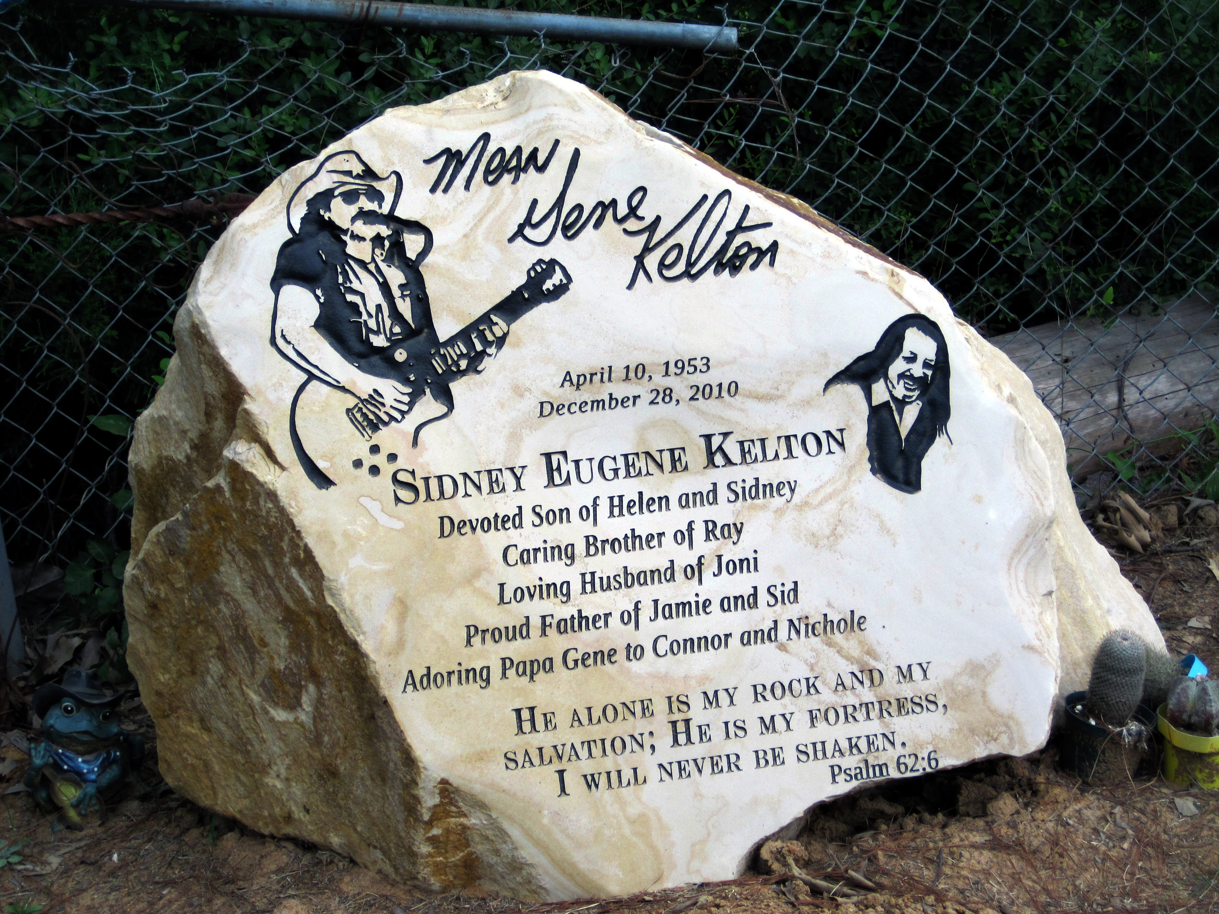 The headstone was designed by Gene's wife, Joni Kelton. I took this photograph.